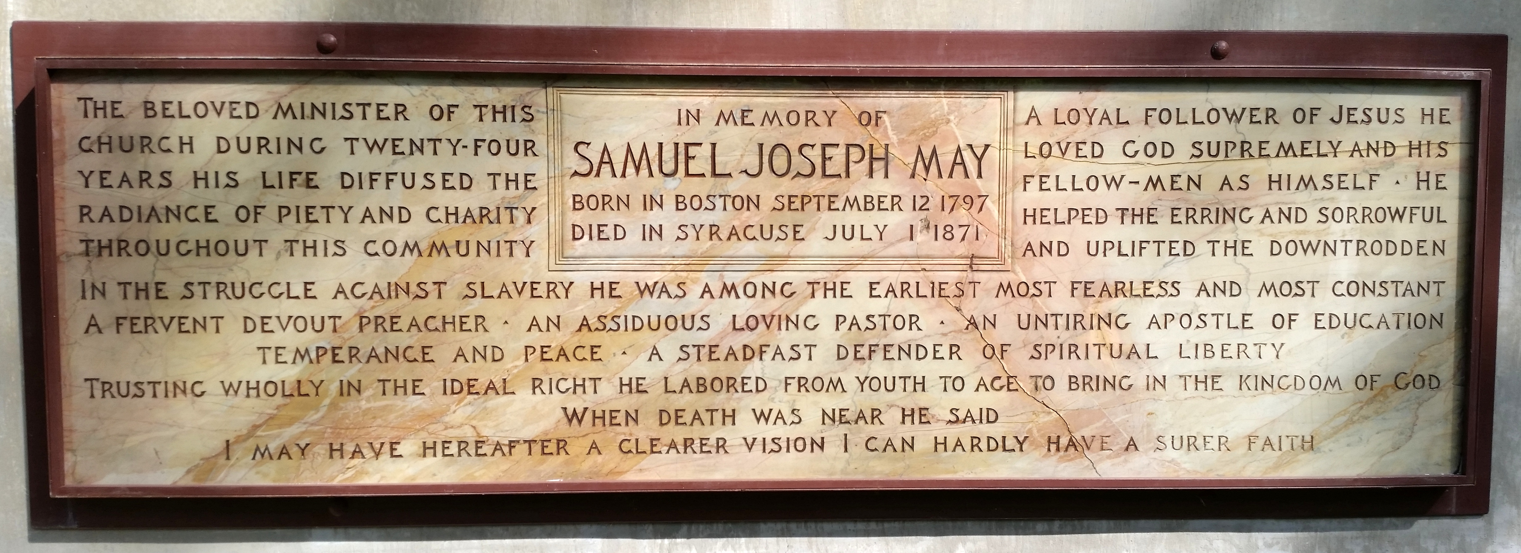 Stone plaque memorializing Rev. Samuel Joseph May, at May Memorial Unitarian Universalist Society, 3800 East Genesee Street, Syracuse, NY